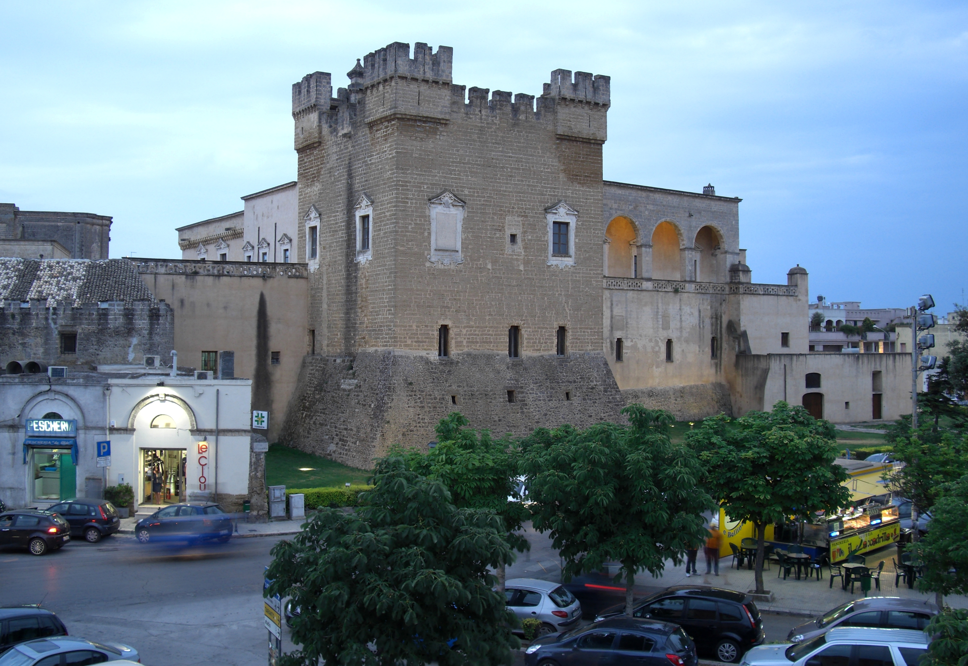 The castello of Mesagne in Apulia in Italy.